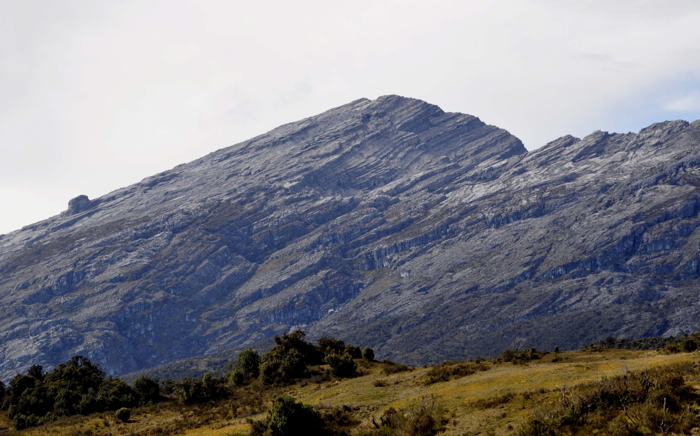 Puncak Mandala from North West. Photo by Christian Stangl flickr